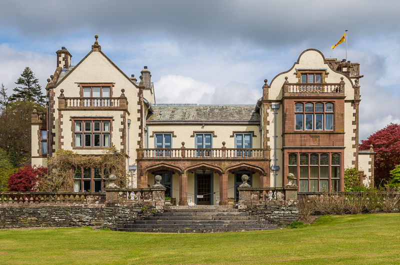 Photograph of Graythwaite Hall, Satterthwaite, Cumbria, England